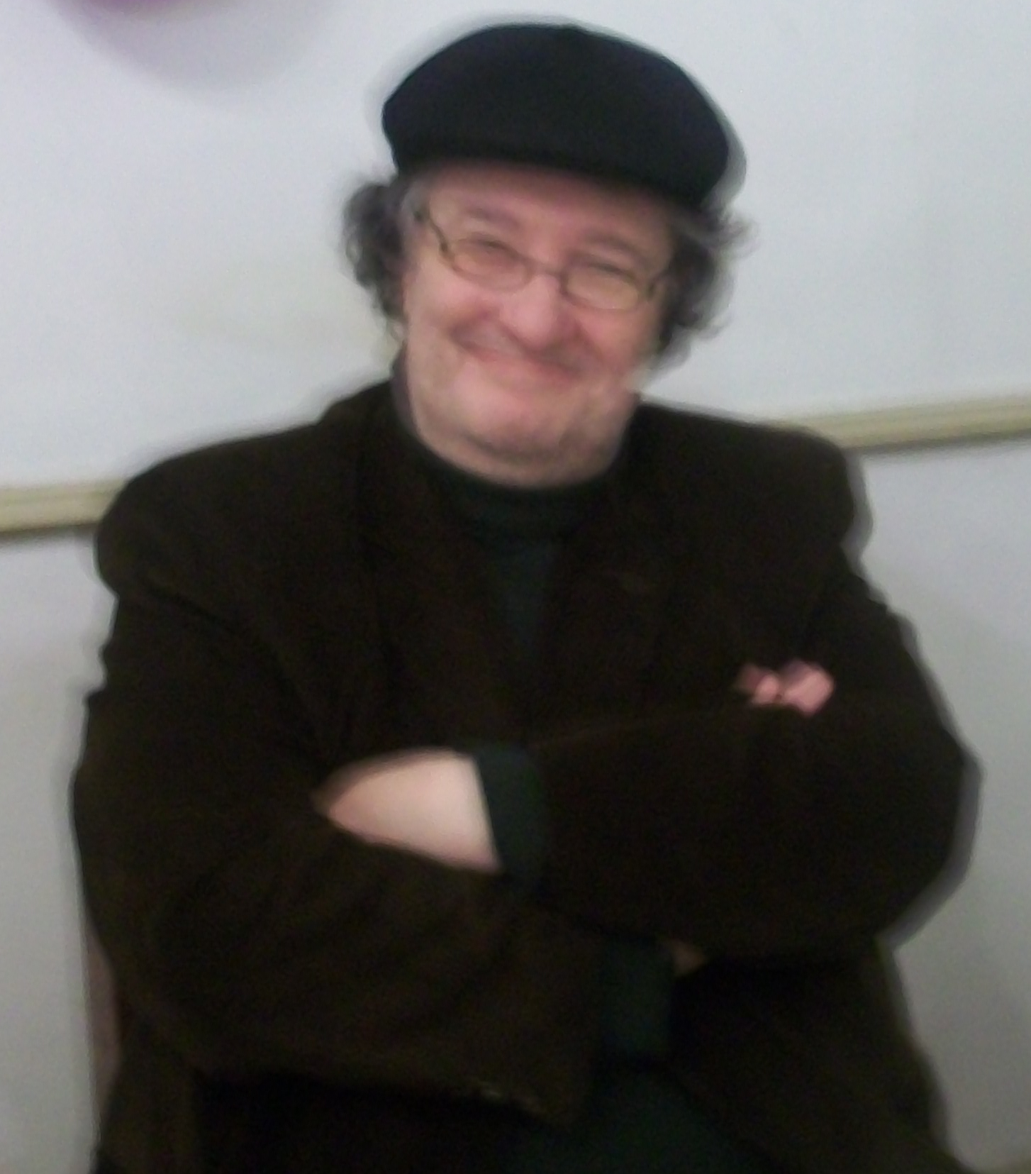 José Pablo Feinmann